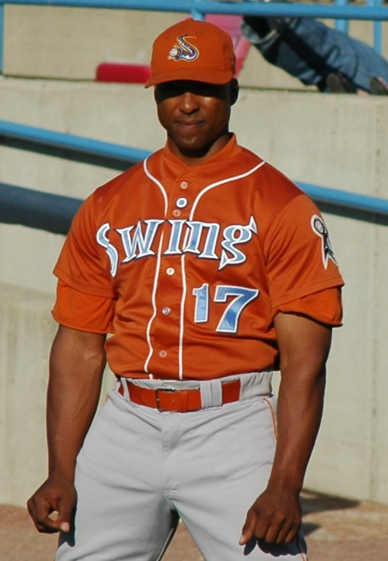 Quad Cities @ West Michiigan, 060605